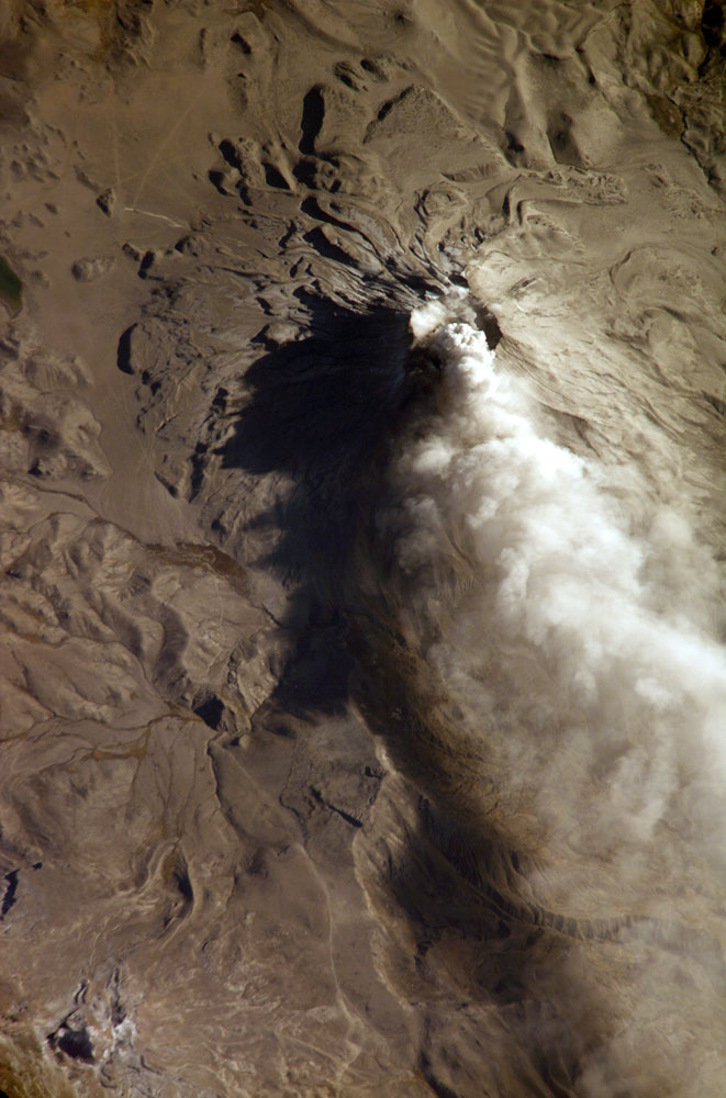 Ash cloud from Mount Ubinas, photographed from the International Space Station